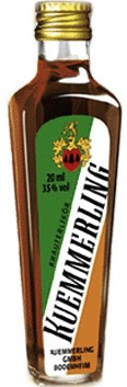 Fläschen